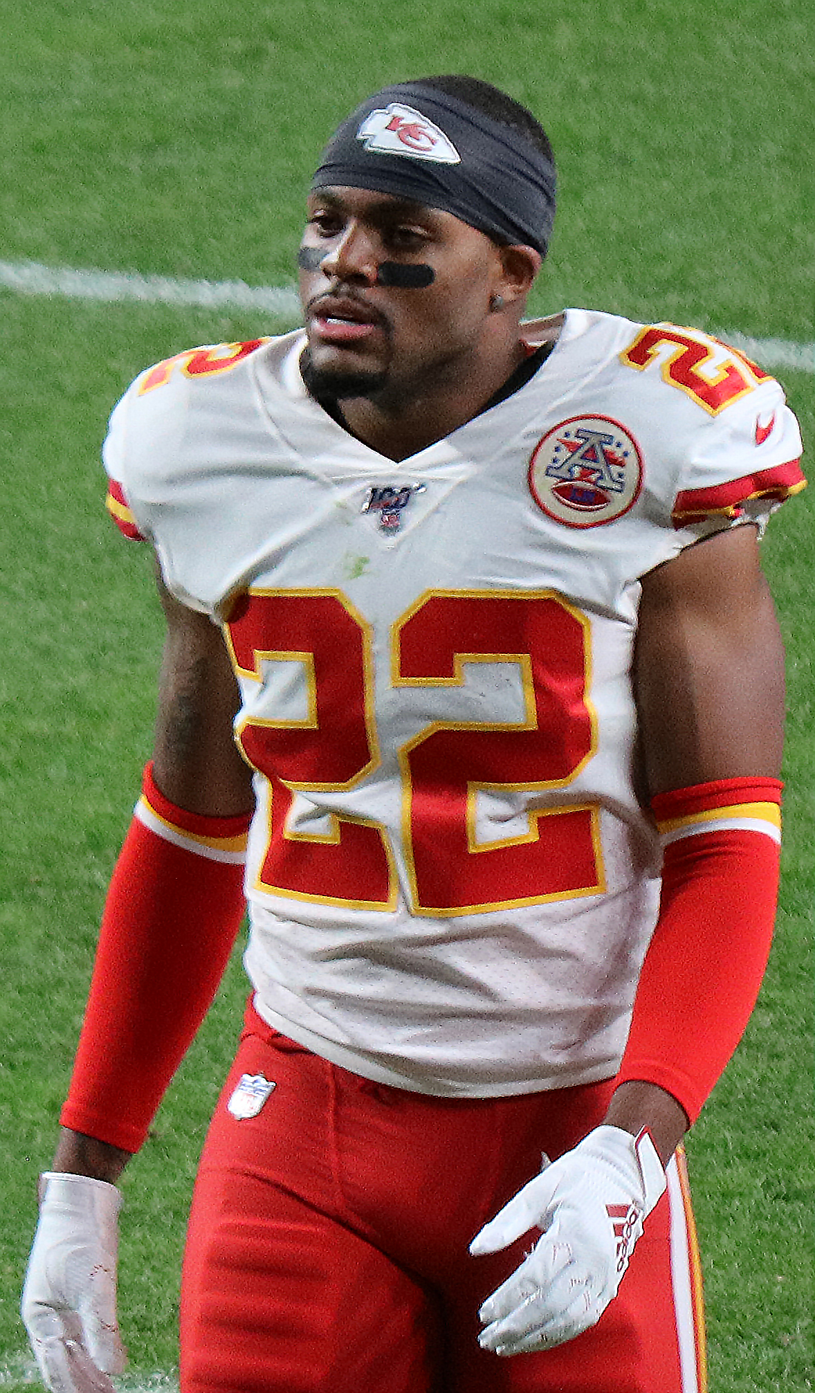 Juan Thornhill, a National Football League player.